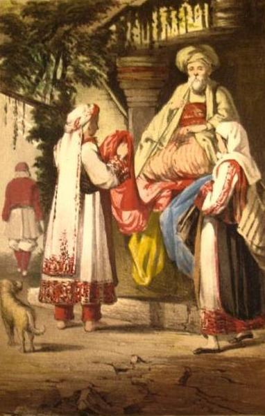 Bulgarian women on a bazaar in Monastir.